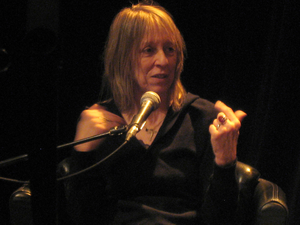 Suze Rotolo, friend of Bob Dylan in 2009 (two Years before she died). Photo taken in Antwerp (Belgium).